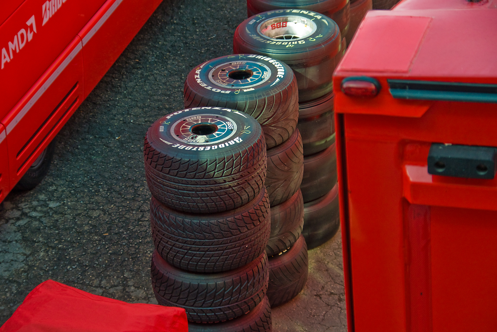 Bridgestone Potenza tires Nikon D90 + Sigma 18-200 DC OS HSM 1/500s - F/5.3 - 80mm - ISO900